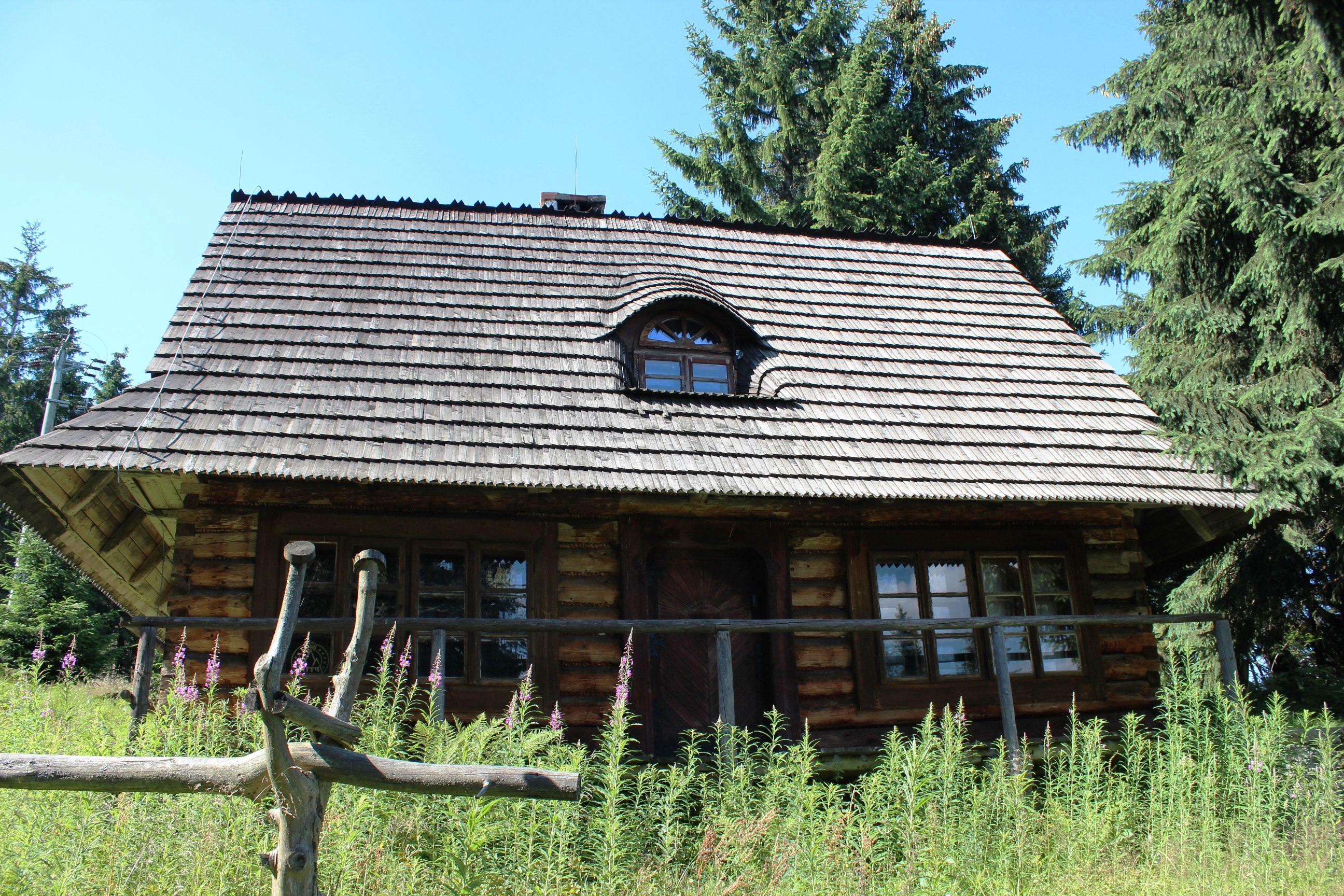 Turbacz Cultural Centre of Mountain Tourism